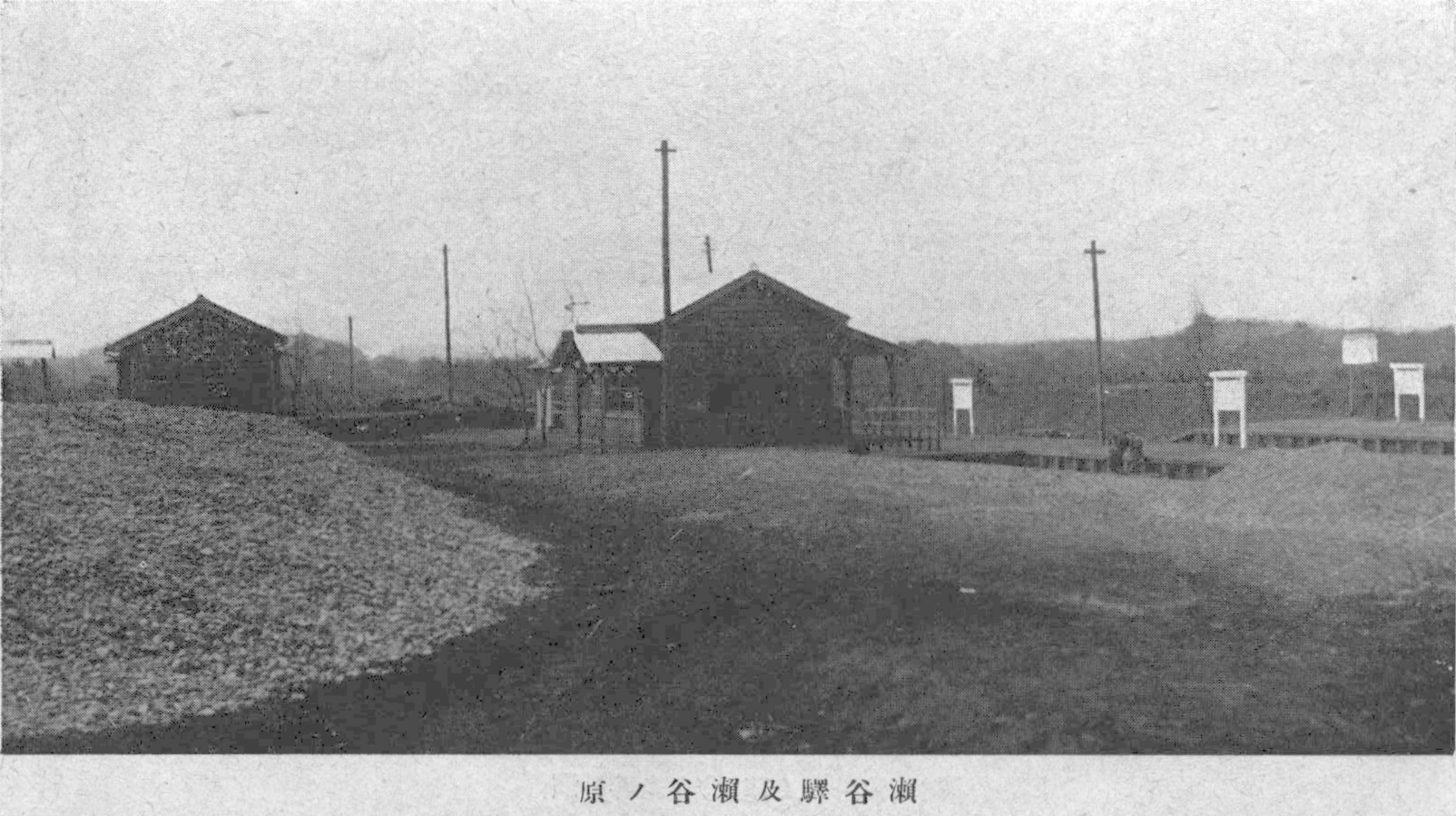 Seya Station on the Jinchu Railway Co.,Ltd. around 1927. Currently Sagami Railway Co.,Ltd.